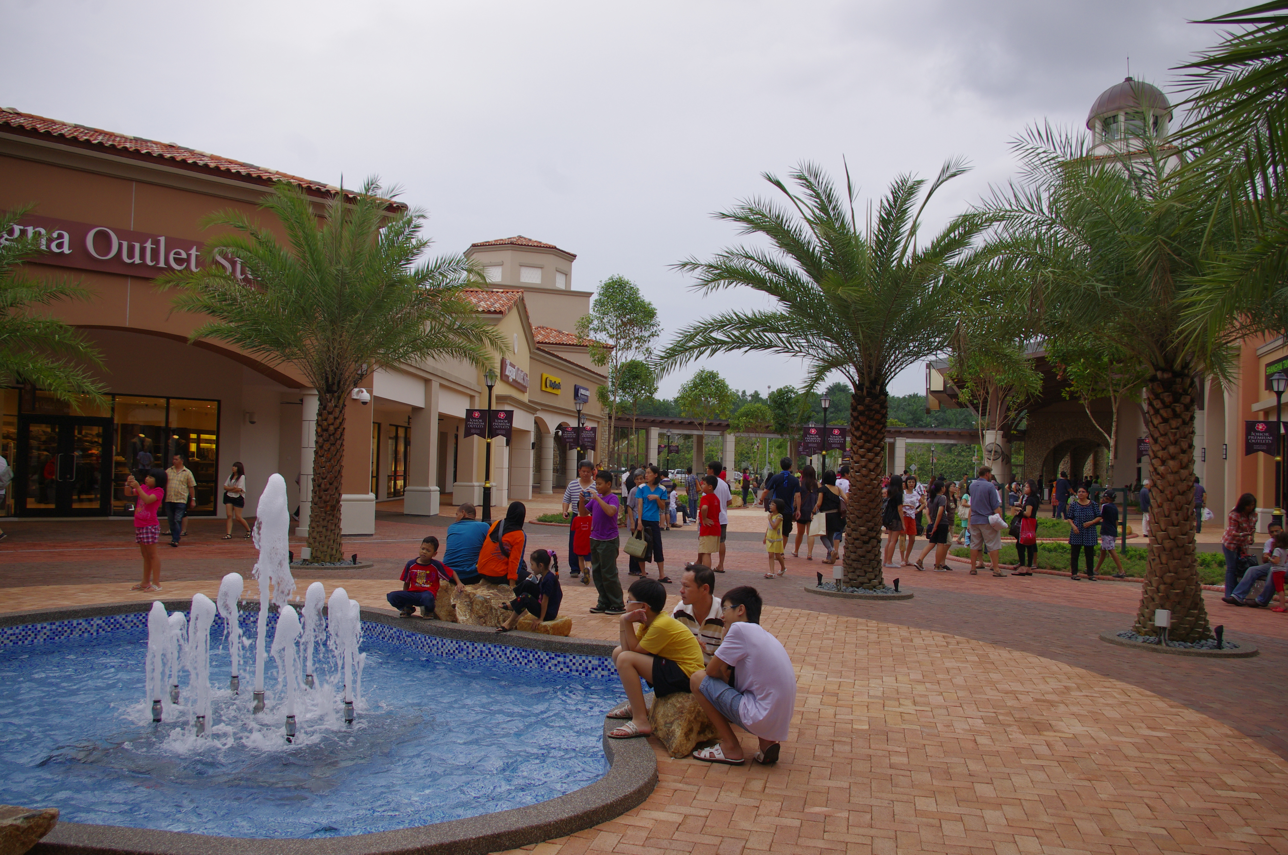 Johor Premium Outlet, Malaysia.